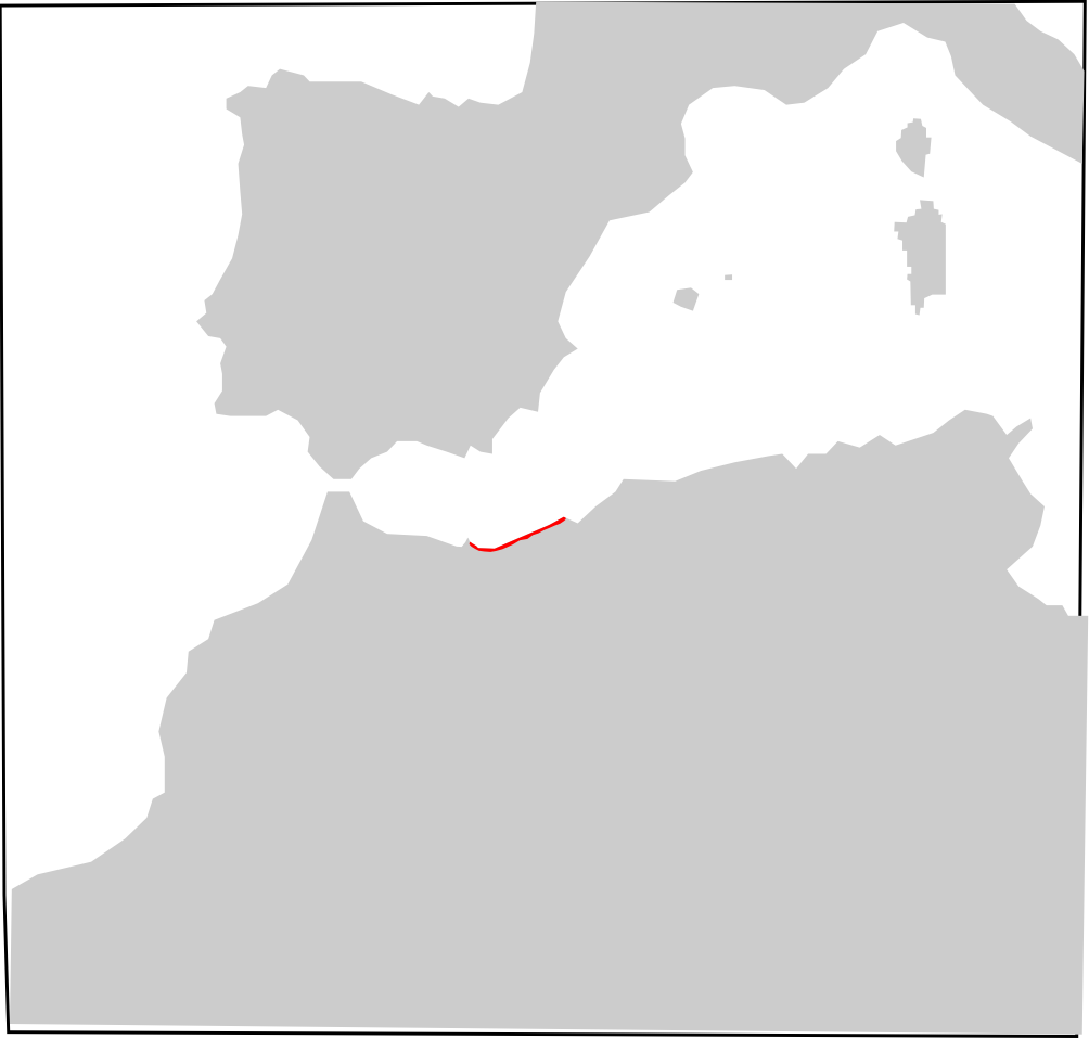 Calcides parallelus distribution map.